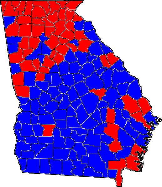 1996 Georgia Senate election results by county.